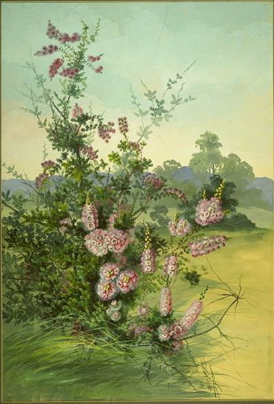 Illustration of Verticordia_pennigera described at [1] as 1 watercolour ; 53.5 x 36.7 cm Signed l.r. Ellis Rowan Australian Collection 275/722